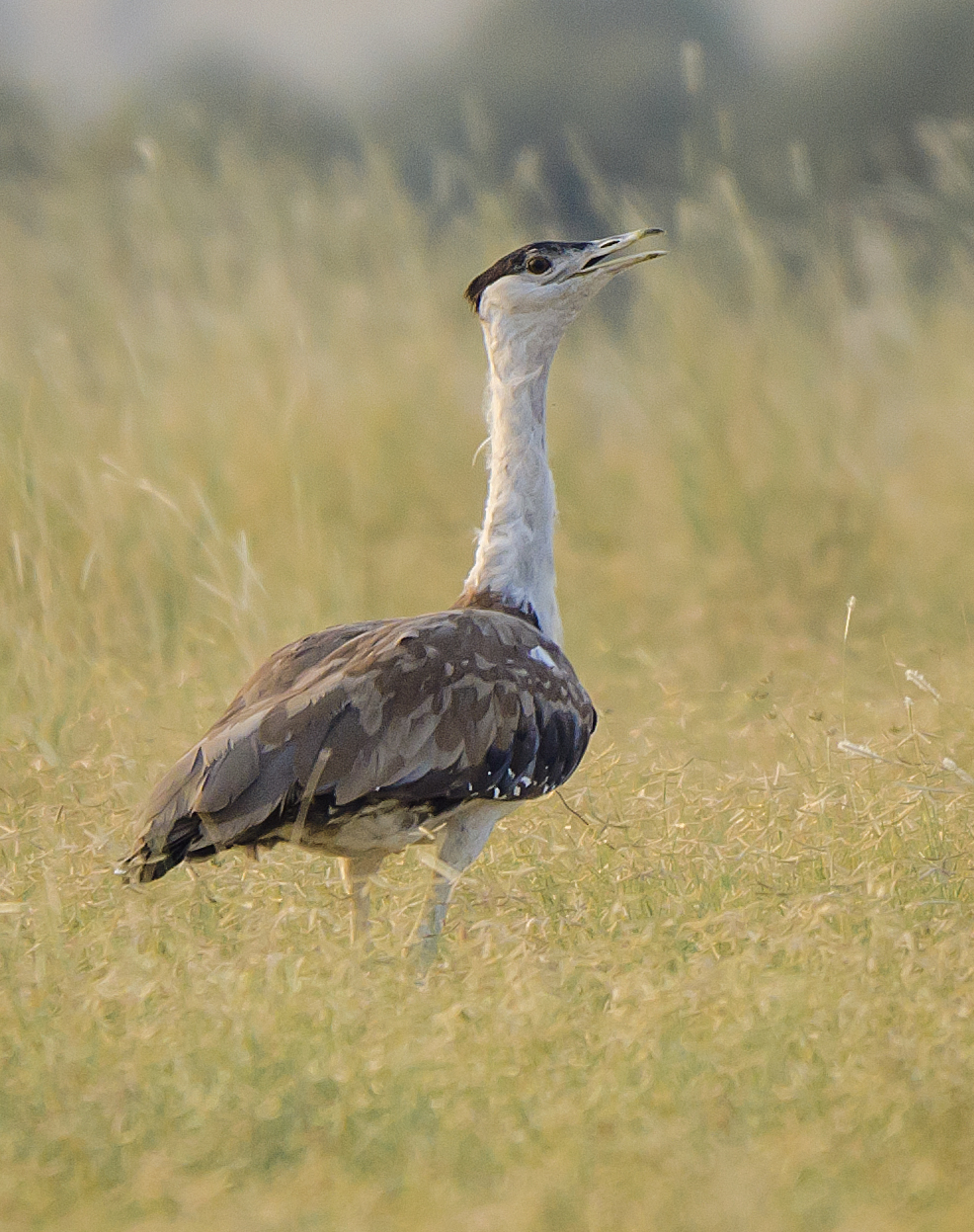 Great Indian Bustard